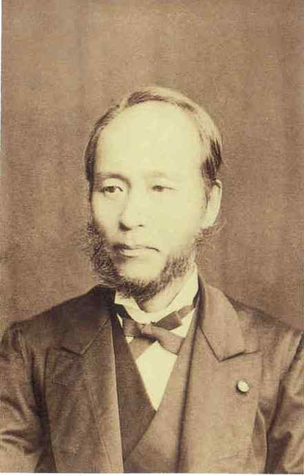 Count Terashima Munenori (寺島 宗則?, June 21, 1832 – June 6, 1893) was a diplomat in Meiji period Japan.